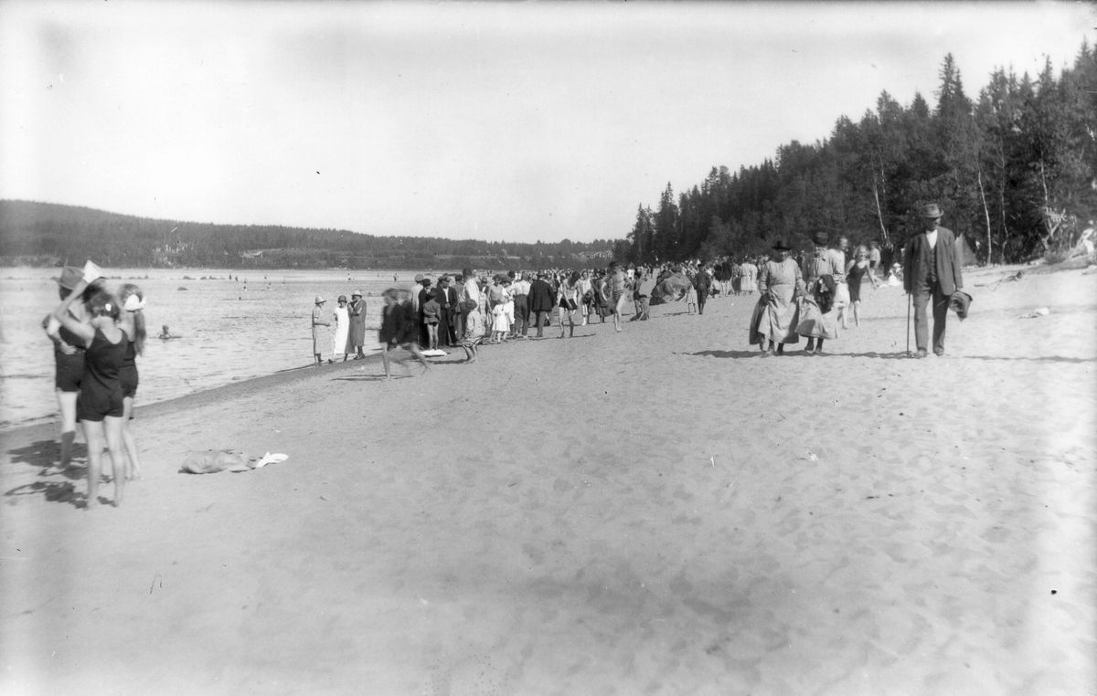 People at the beach of Orbaden by lake Ljusnan in 1923.